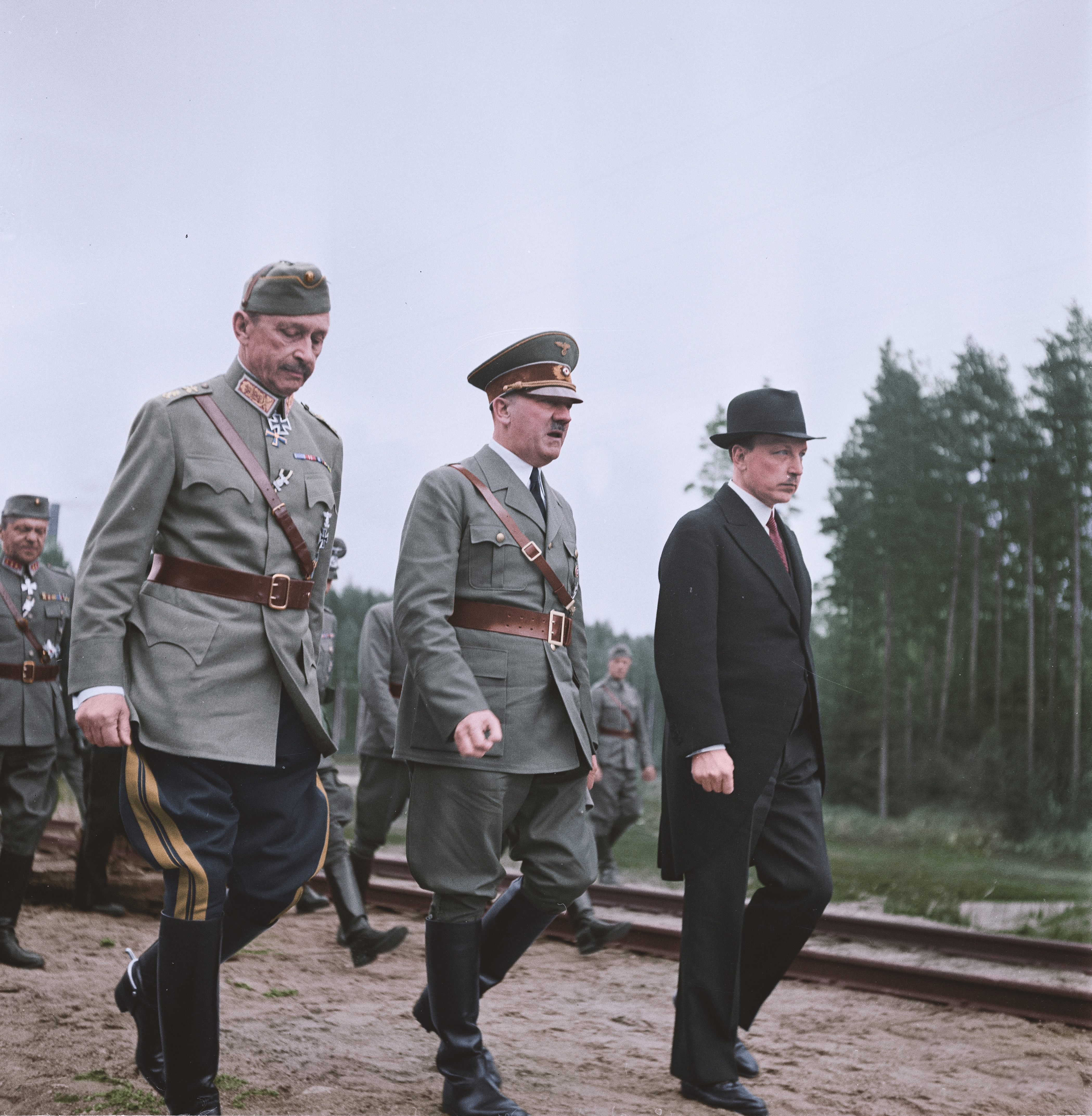 C.G.E. Mannerheim, A. Hitler and R.Ryti in June 4th 1942 during Hitler's visit in Finland